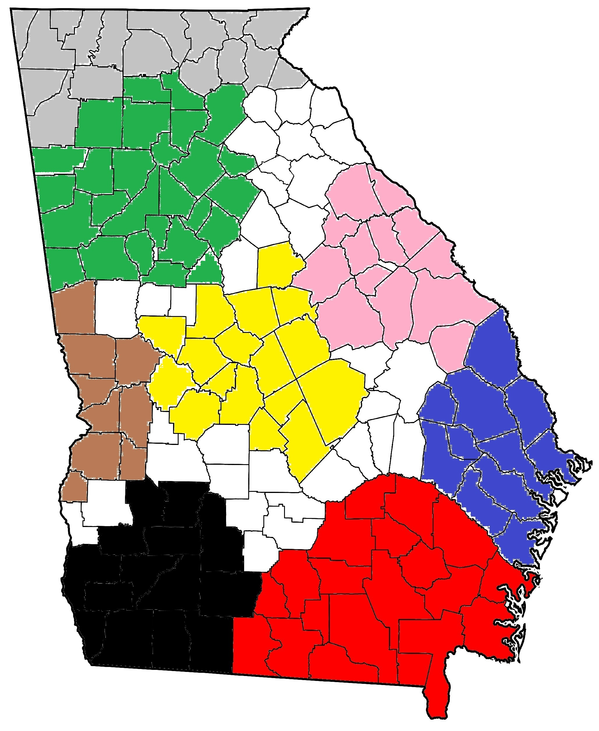 Map showing the main regions of Georgia.